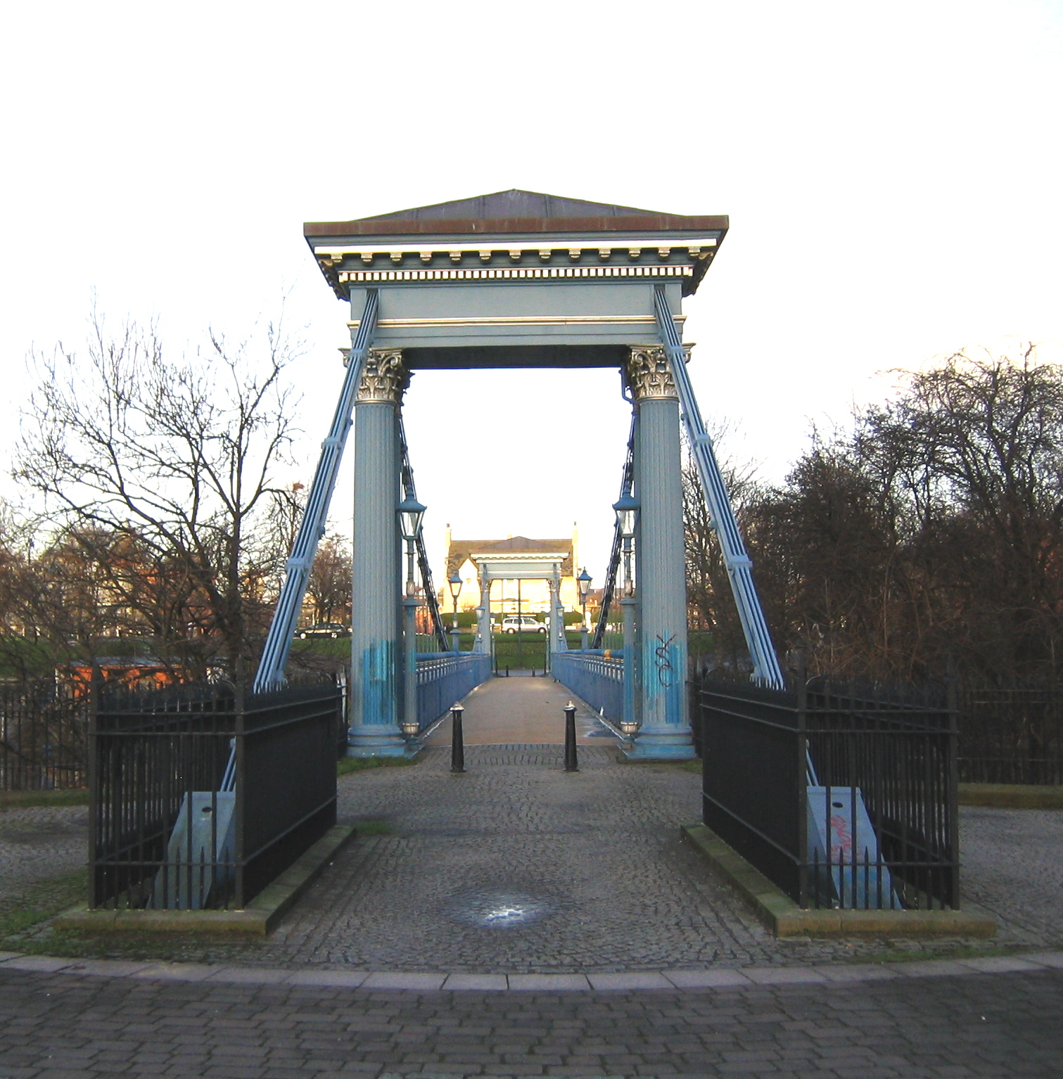 St Andrew's Suspension Bridge on the edge of Glasgow Green, Glasgow, Scotland.